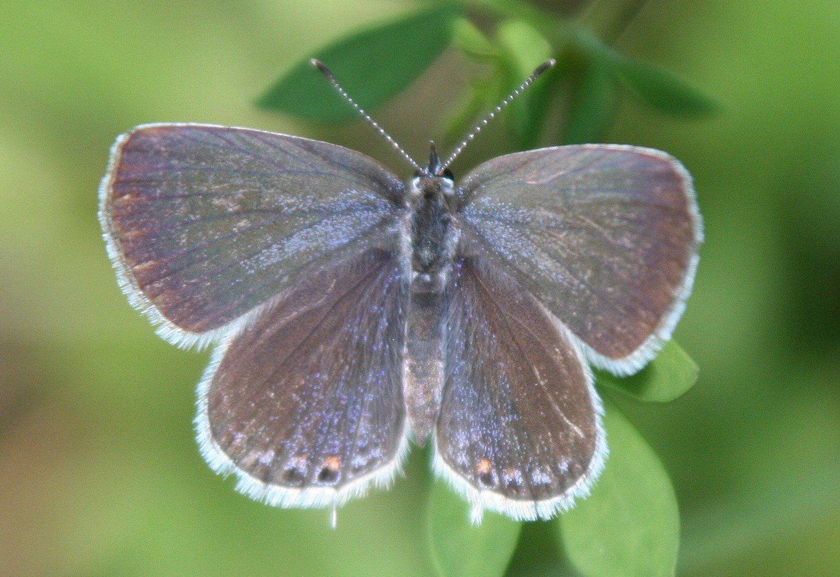 A female short-tailed blue butterfly (Cupido argiades), photographed in Weinsberg